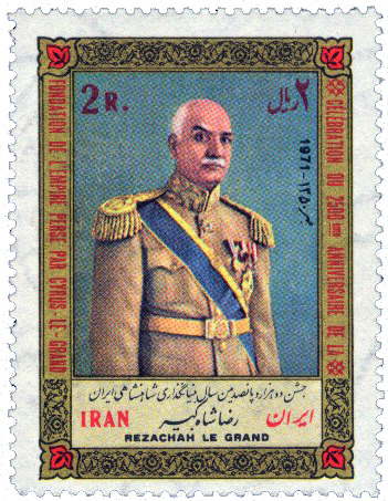 Reza Shah on Iranian stamp.